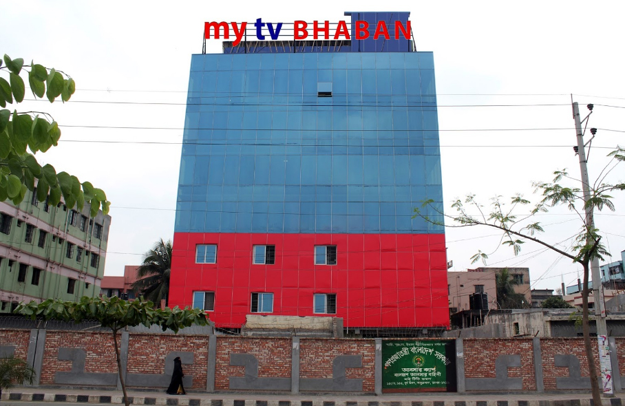 mytv New Hatir Jheel Bhaban